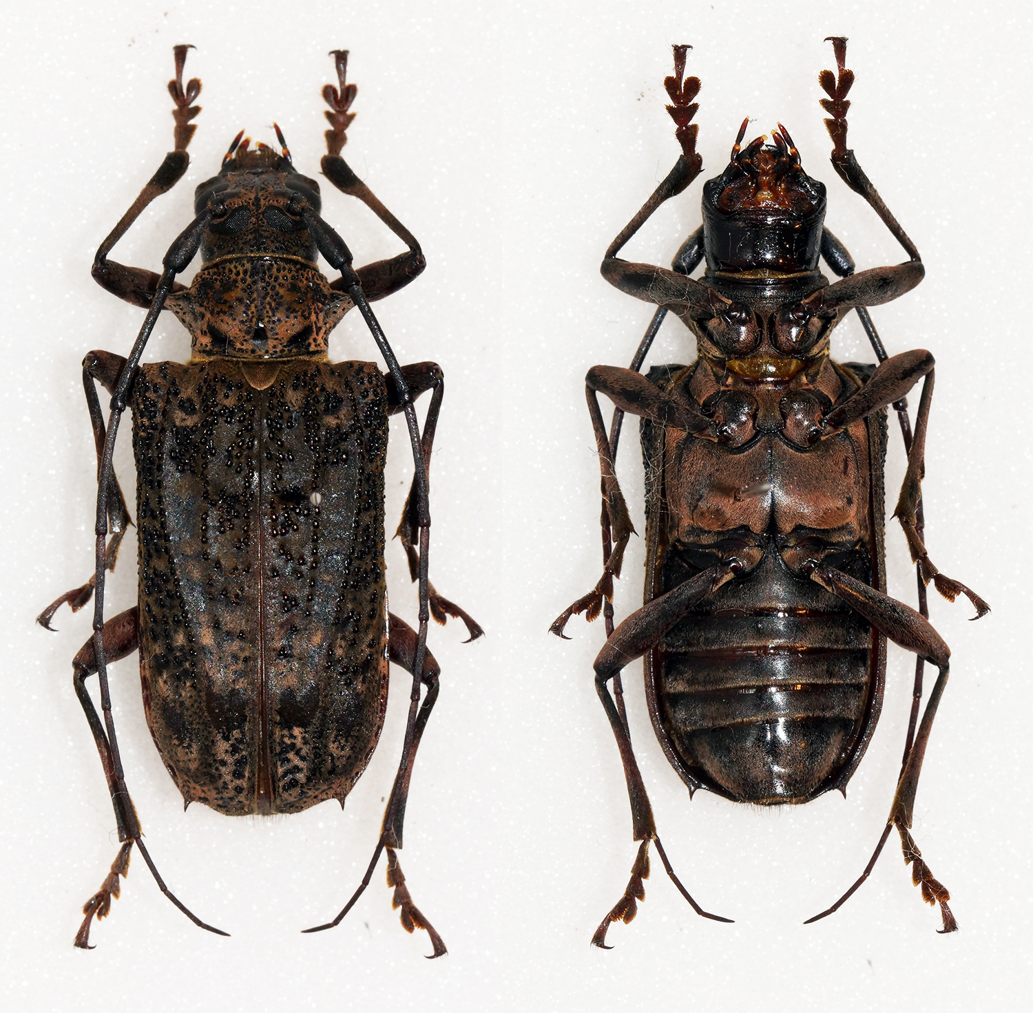 Buquet,1853 Sex: Female Data: 06-2012 - Rio Venado - Satipo - Junin - Peru Size: 29mm